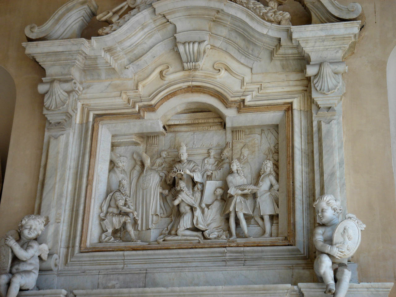 Carlo de Bourbon's (later Charles III of Spain) coronation as king of Sicily. Relief in the southern porch (Palermo Cathedral)